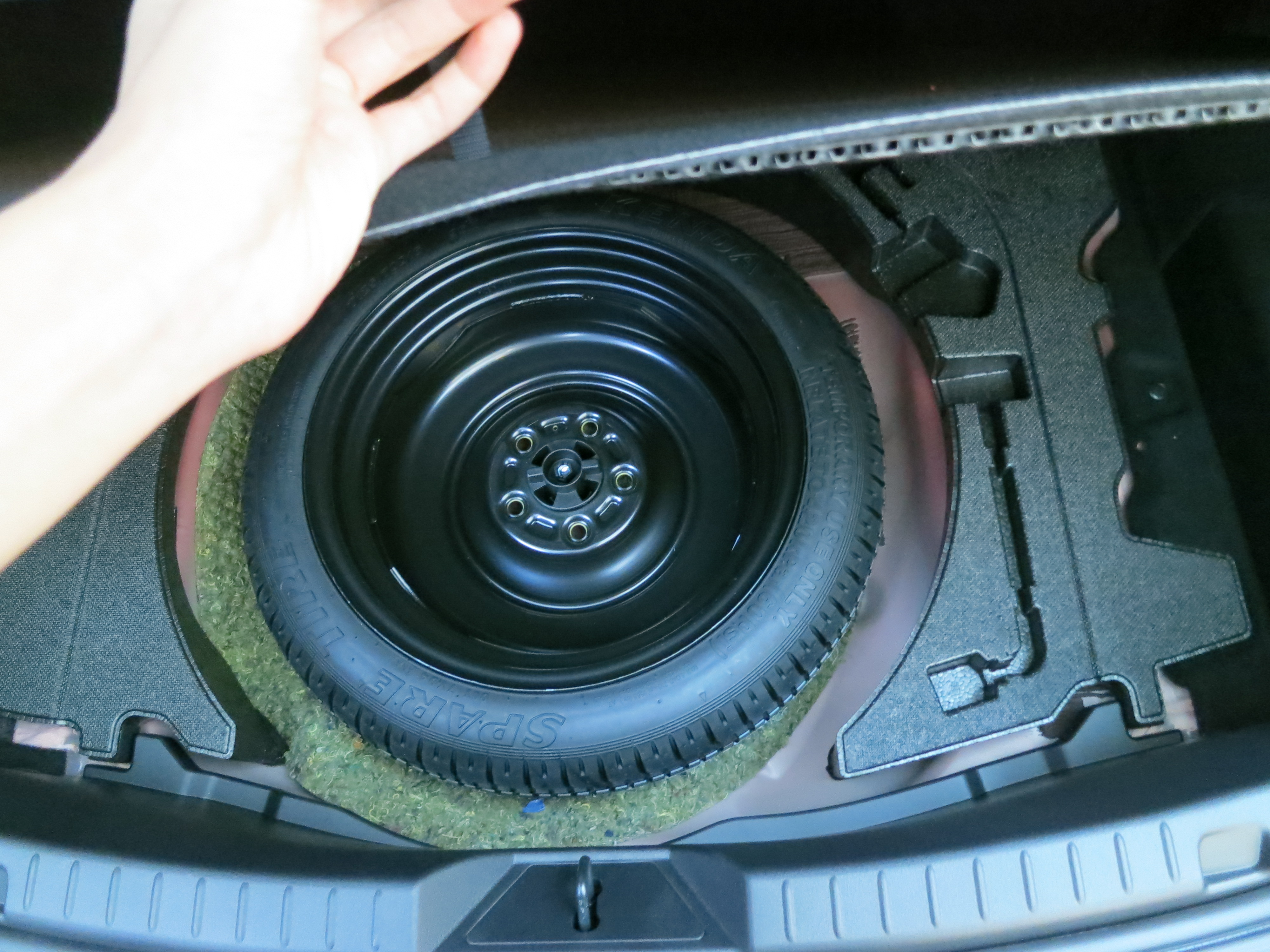 Taken at Queensbay Mall, Penang, Malaysia on the 12th of July 2019 of a 2019 Mazda 3 Sedan 2.0 SkyActiv-G High Plus.